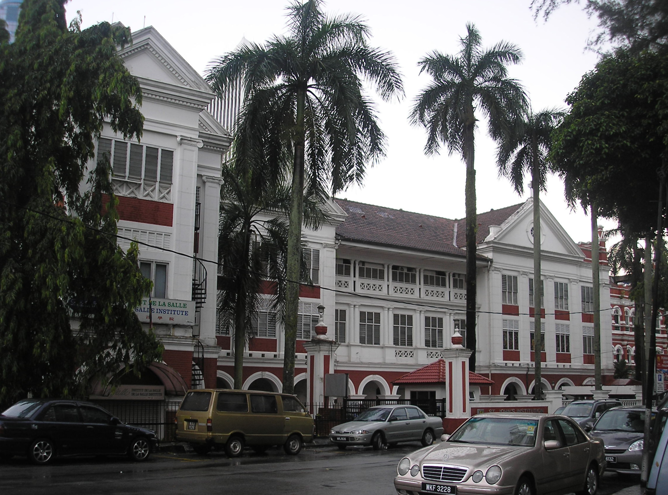 The De La Salle Institute building at Jalan Bukit Nanas (Bukit Nanas Road), in Bukit Nanas, Golden Triangle, Kuala Lumpur, Malaysia, as seen towards the southeast. Now St John's International School.